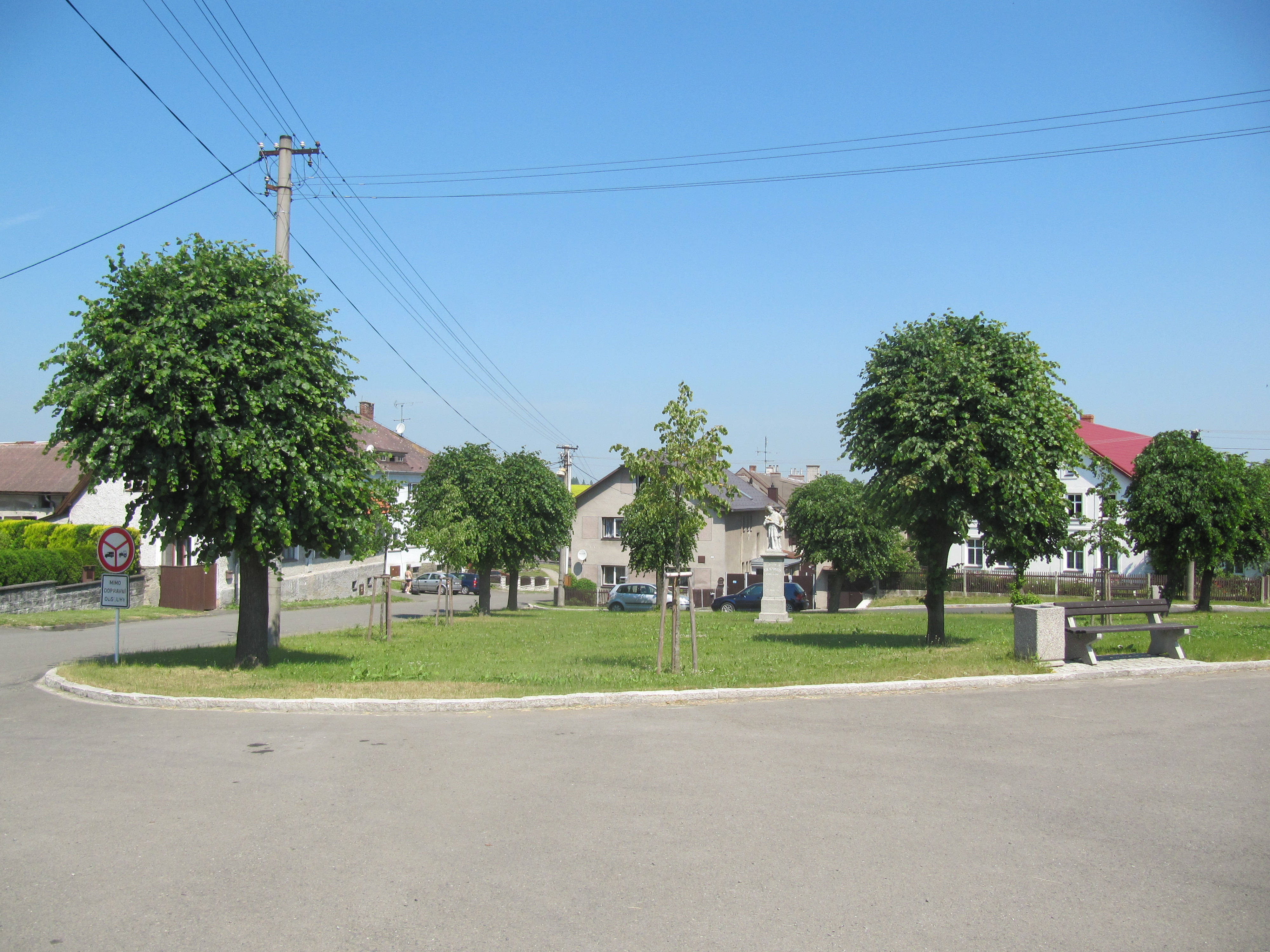 Březová, Opava District, Czech Republic.